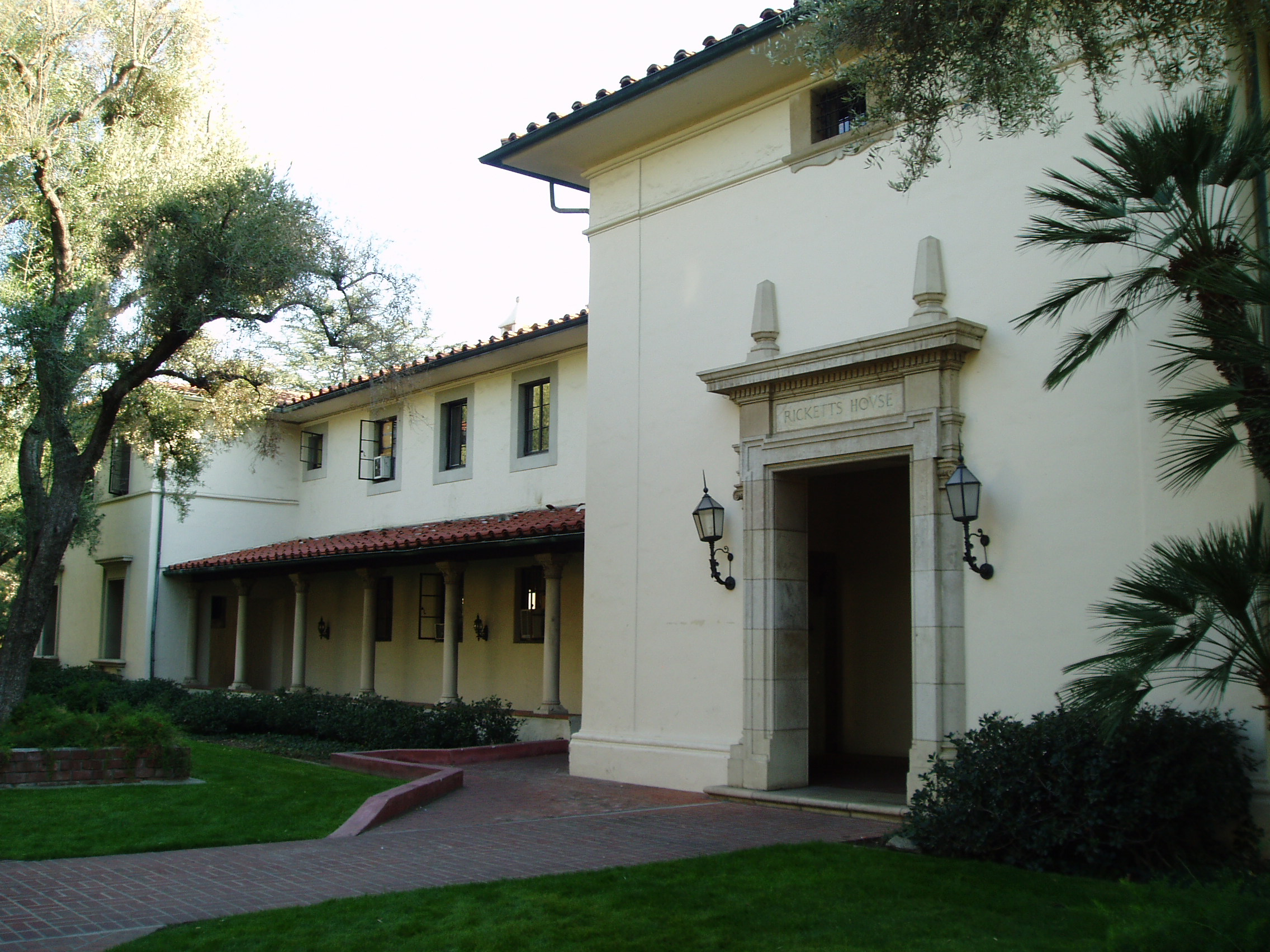 Ricketts House facade — at the California Institute of Technology, in January 2004. The 1931 building, of the South Houses group, was designed in the Mediterranean Revival style by architect Gordon Kaufmann.